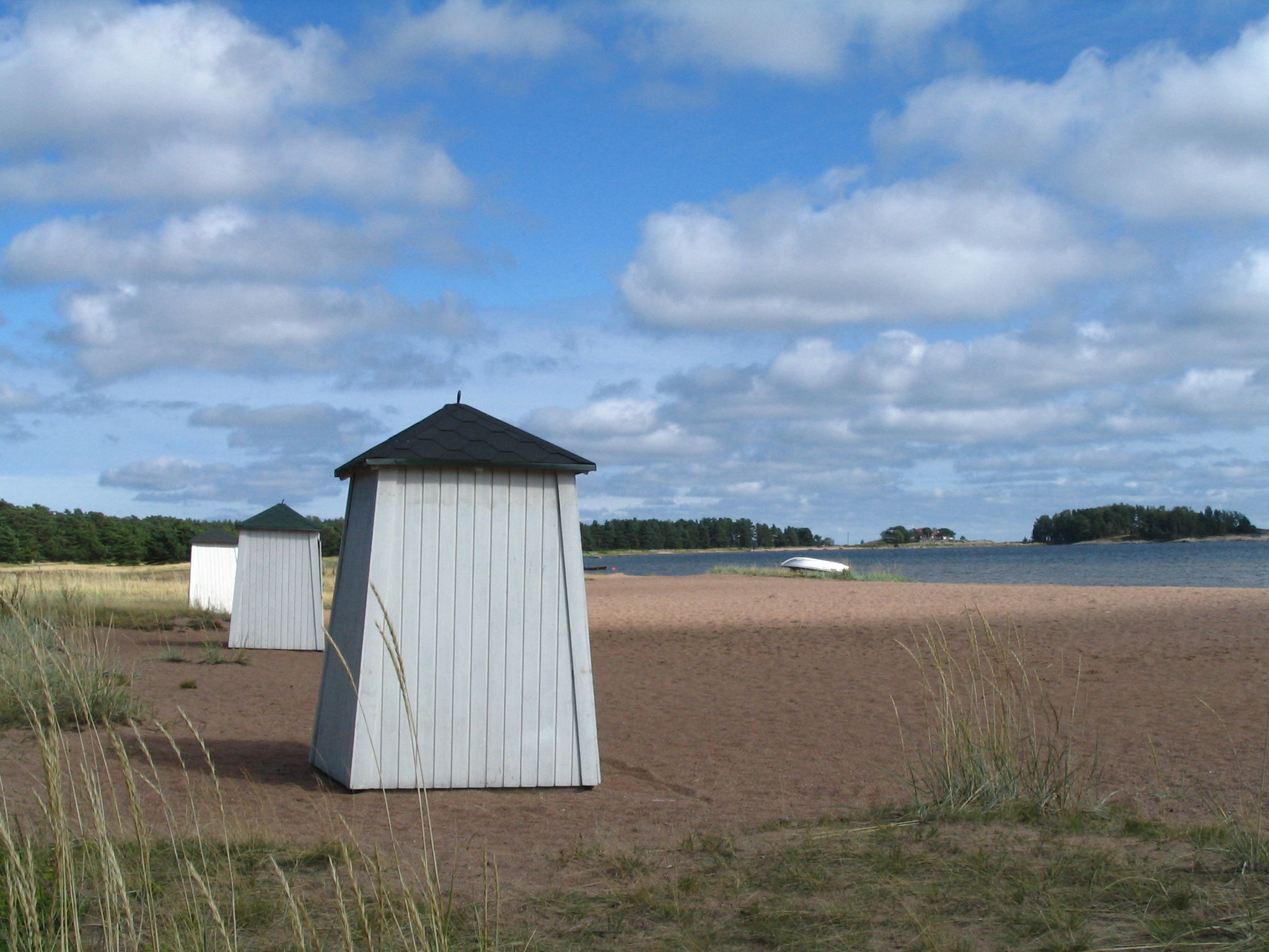 Långsanda beach in Hanko, Finland.